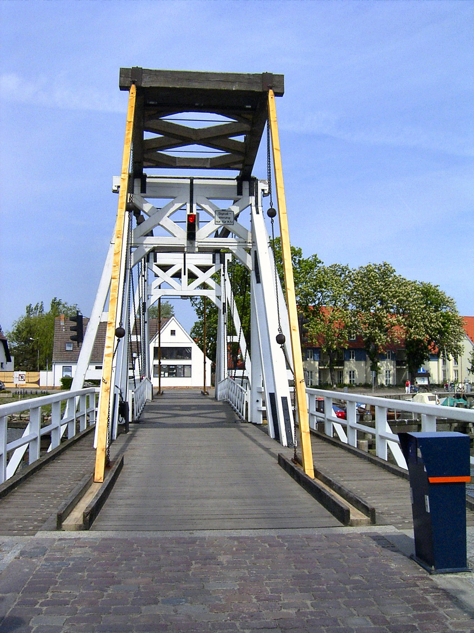 historical bascule bridge in Wieck near Greifswald from south